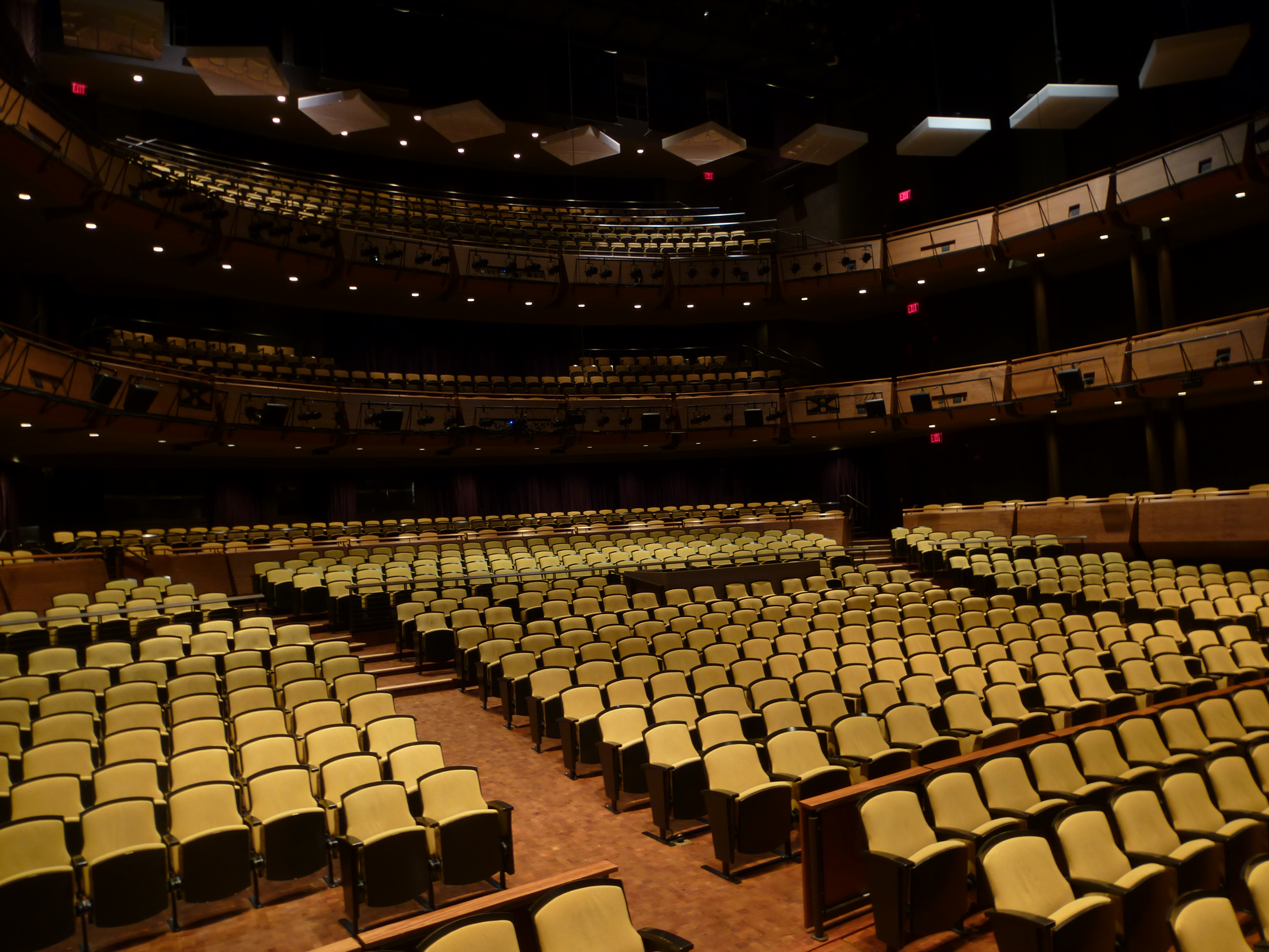 Site: Marian Paredes